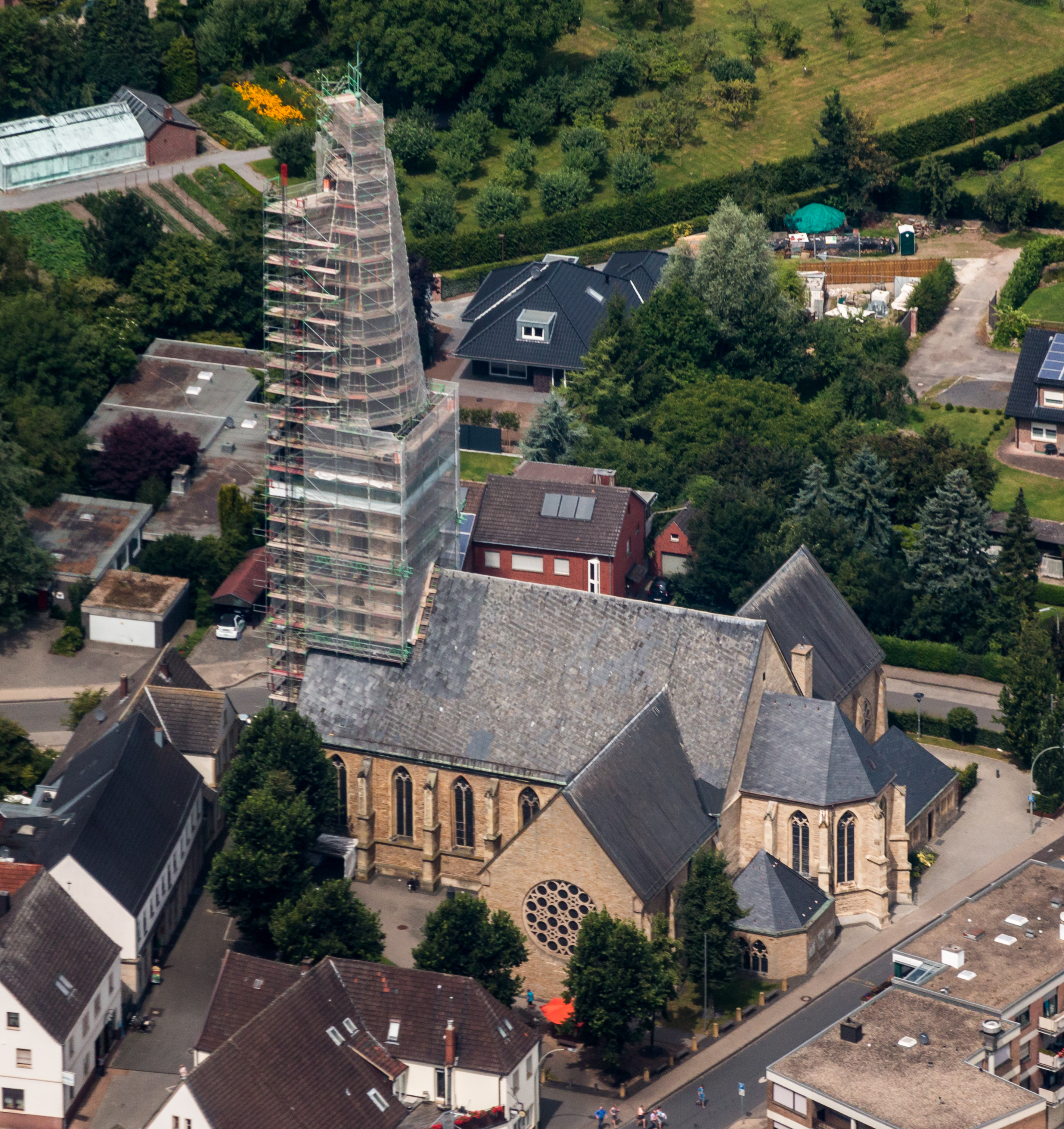 St. Dionysius Church, Nordwalde, North Rhine-Westphalia, Germany